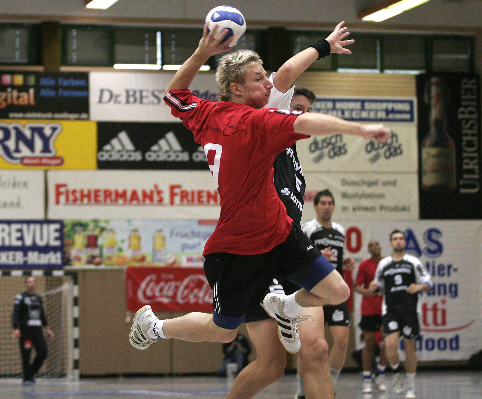 Tamás Iváncsik, Hungarian handball player from MKB Veszprém, during the Schlecker Cup 2007 in Ehingen (Germany)